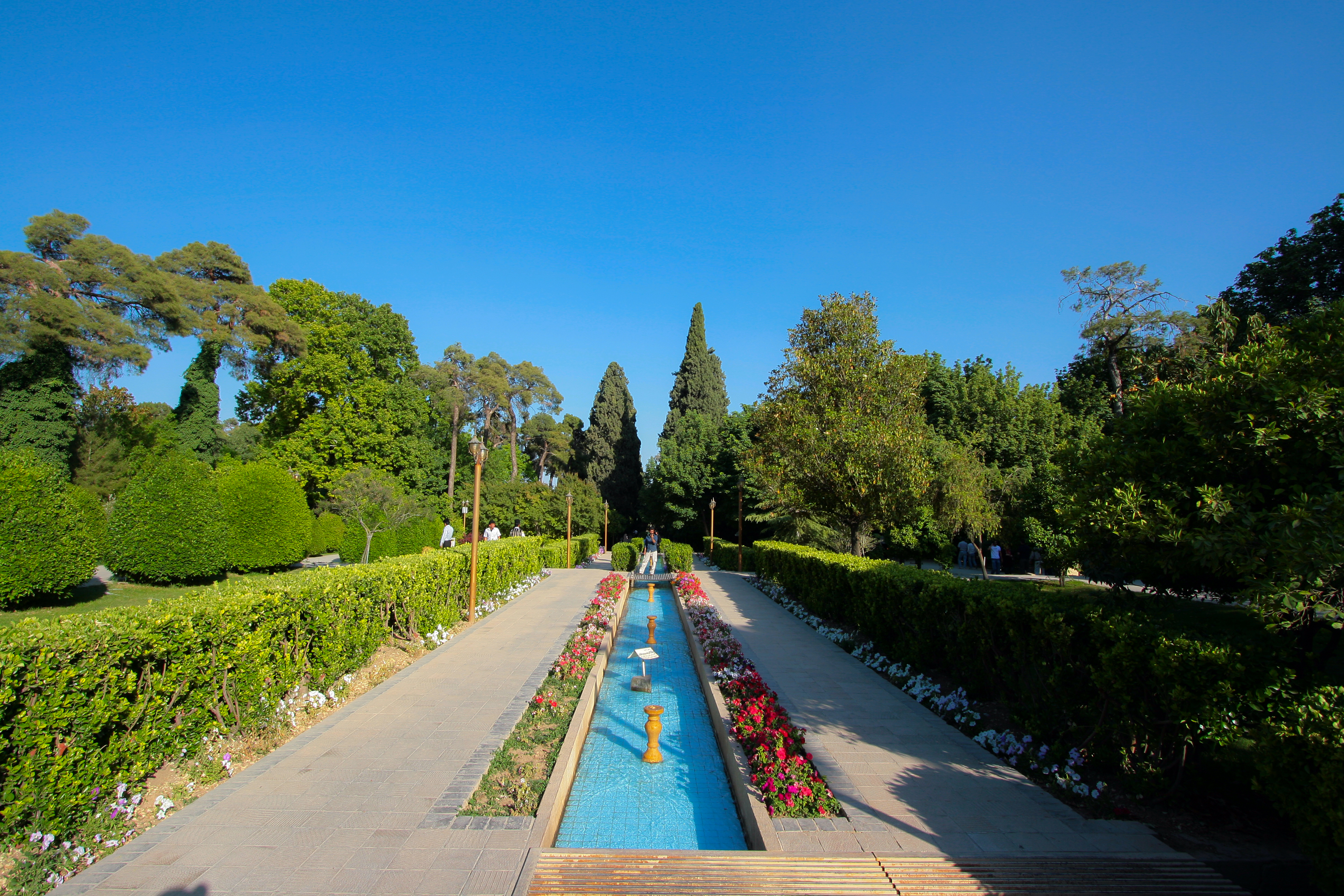 Eram Garden is a historic Persian garden in Shiraz, Iran.The garden, and the building within it, are located at the northern shore of the Khoshk River in the Fars province.